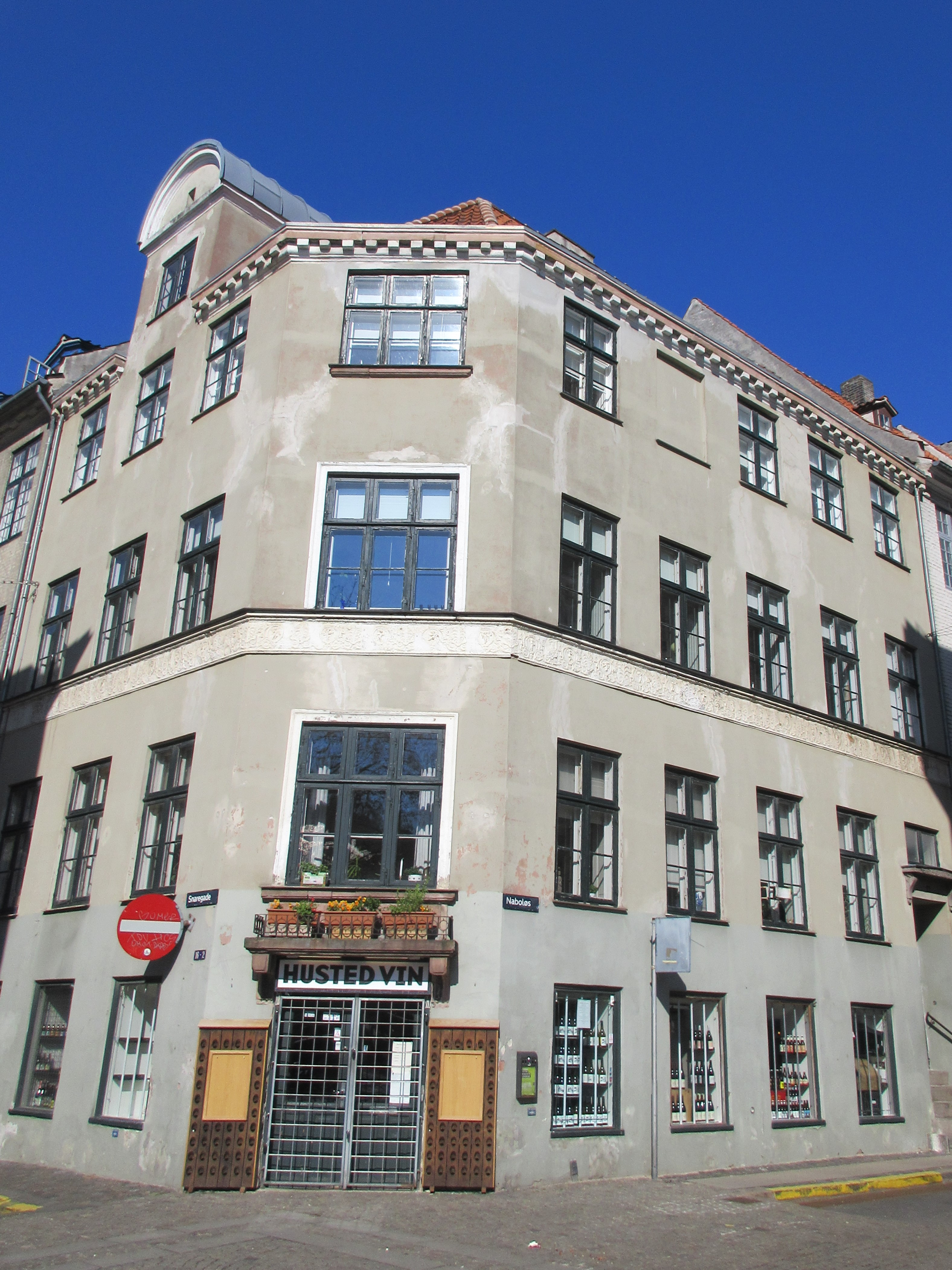 Naboløs 2 in Copenhagen, Denmark